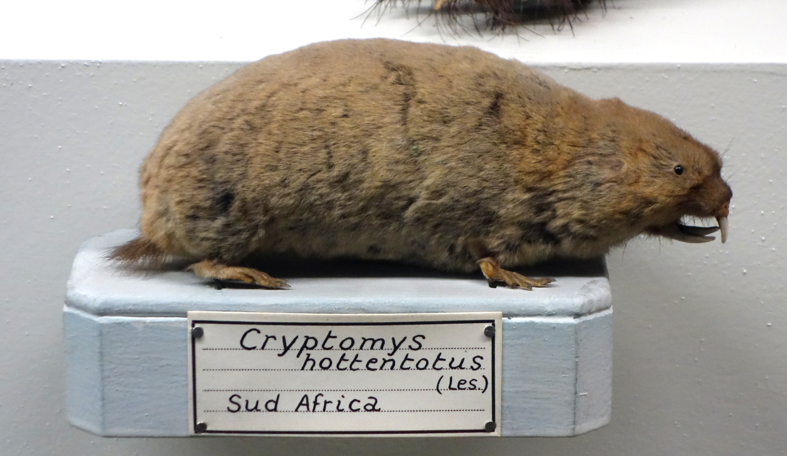 Exhibit in the Museo Civico di Storia Naturale di Genova, Via Brigata Liguria, 9, 16121, Genoa, Italy.